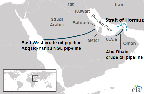 The Strait of Hormuz is the world's most important oil chokepoint because of the large volumes of oil that flow through the strait. June 20, 2019